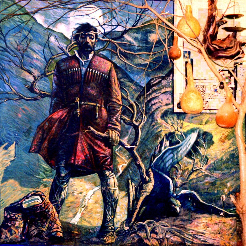 'Vazha-Pshavela' by Guram Gagoshidze (Chobi),1991